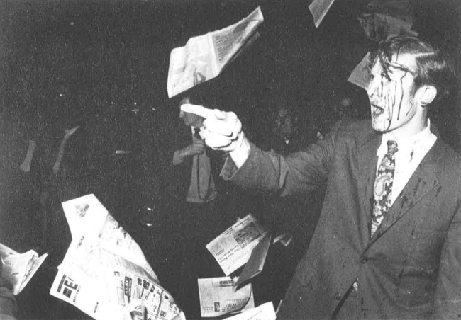 Terence Hallinan, blood running down his face from a gash in his head which was laid open by a police billy club, yells at police, as wadded newspapers thrown by San Francisco State student demonstrators fill the air. Hallinan claimed he was struck by police while trying to aid a girl to safety. 27 persons were arrested as police cleared protesting students from a sit-in at the Administration Building at San Francisco State College late 5/21.